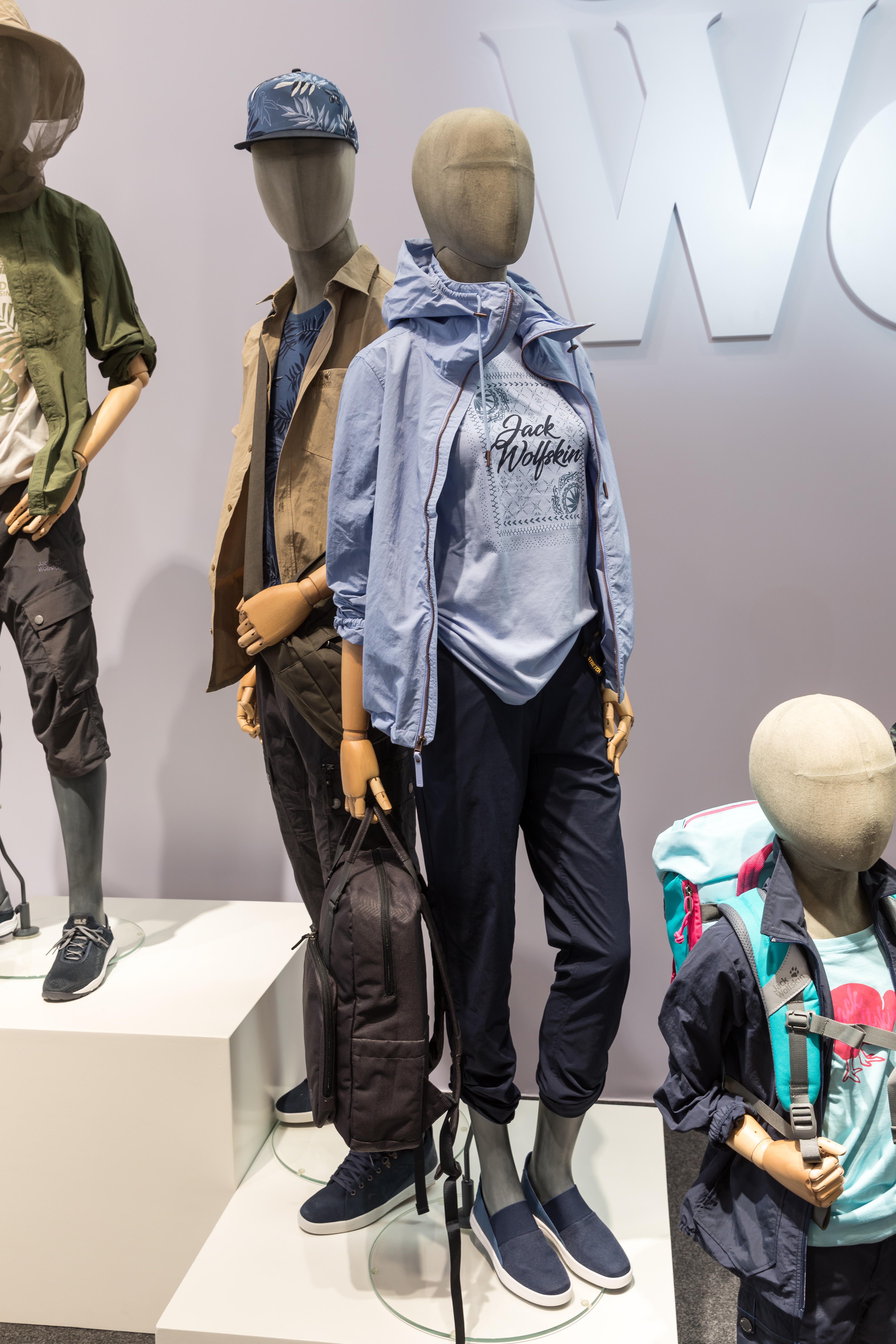 OutDoor 2018